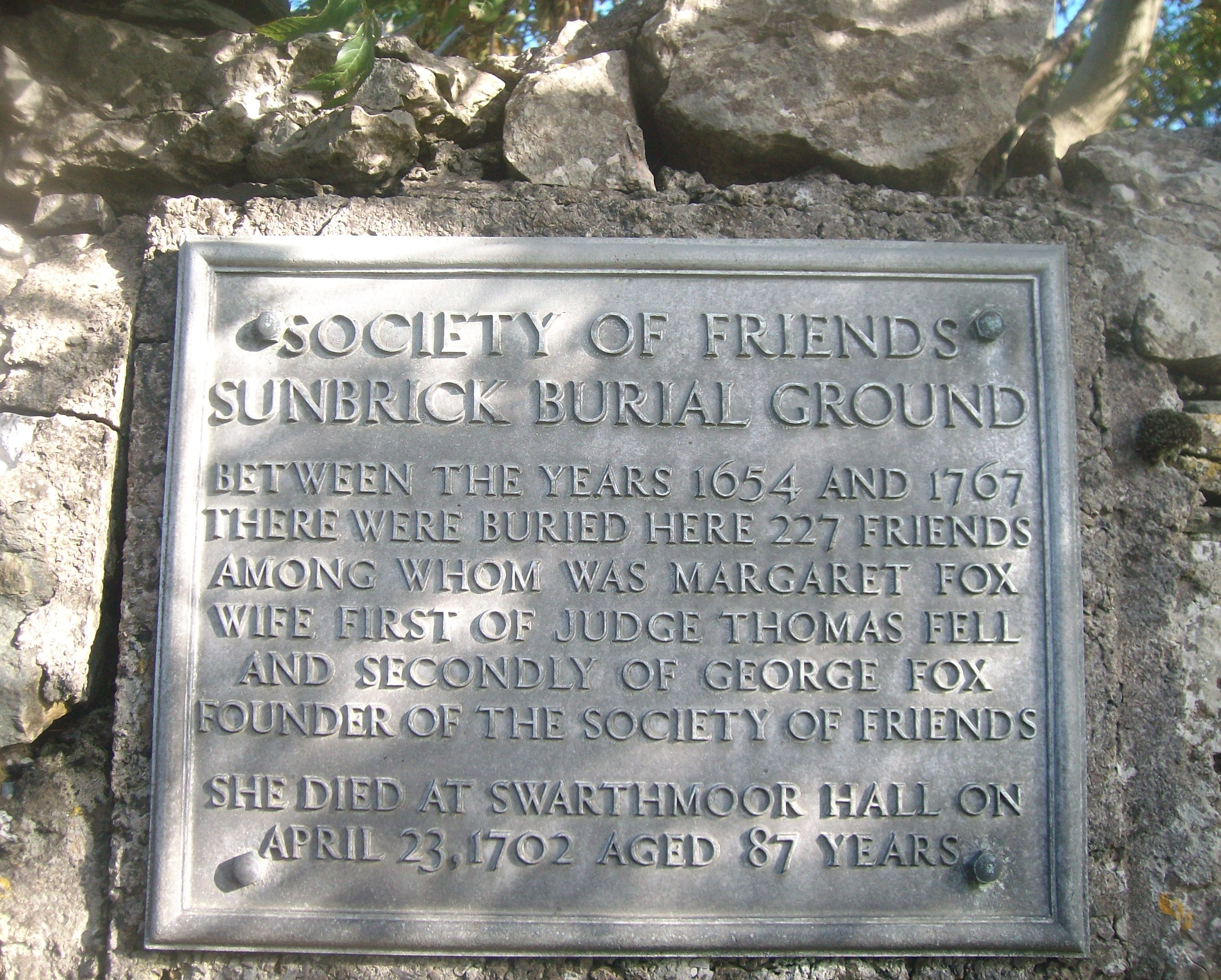 Sign at the Sunbrick burial ground for the Religious Society of Friends. It is situated on Birkrigg common, around 2 or 3 miles away from Swarthmoor Hall. See also: Burial ground, Sunbrick - Society of Friends